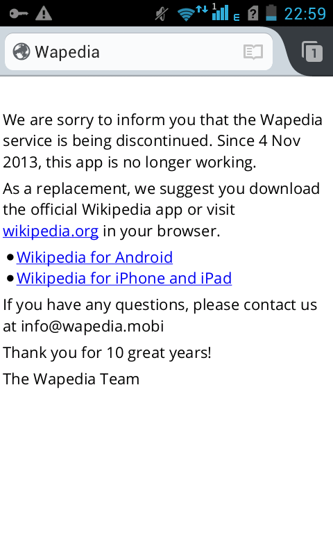 Wapedia show goodbye page ( to declare closed, screenshot in Firefox mobile 25.0